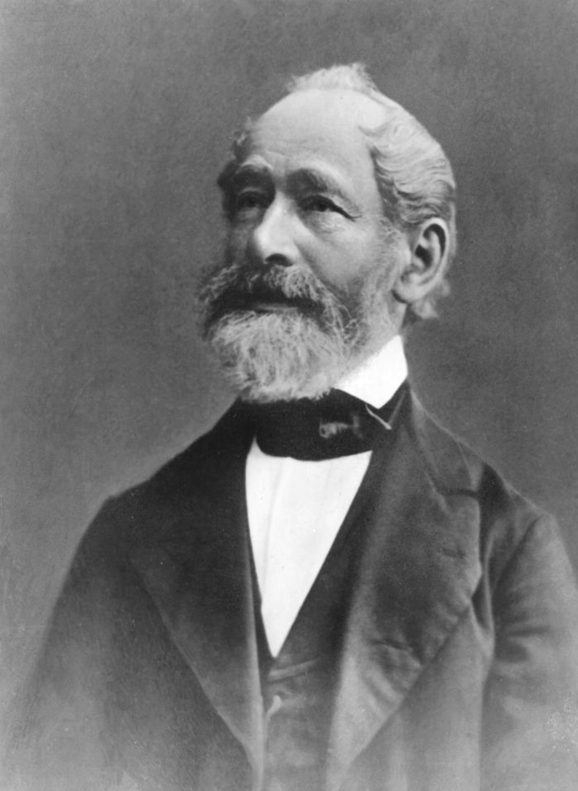 The founder of Carl Zeiss. Raised in Weimar, Germany, he became a notable lens maker in the 1840s when he created high quality lenses that were "wide open", or in other words, had a very large aperture range that allowed for very bright images. He did this in the city of Jena at a self opened workshop, where he started his lens making career. At first his lenses were mainly used in the production of microscopes, but when cameras were invented, his company began manufacturing high quality lenses for cameras. (Source = Wikipedia) Images donated as part of a GLAM collaboration with Carl Zeiss Microscopy - please contact Andy Mabbett for details.